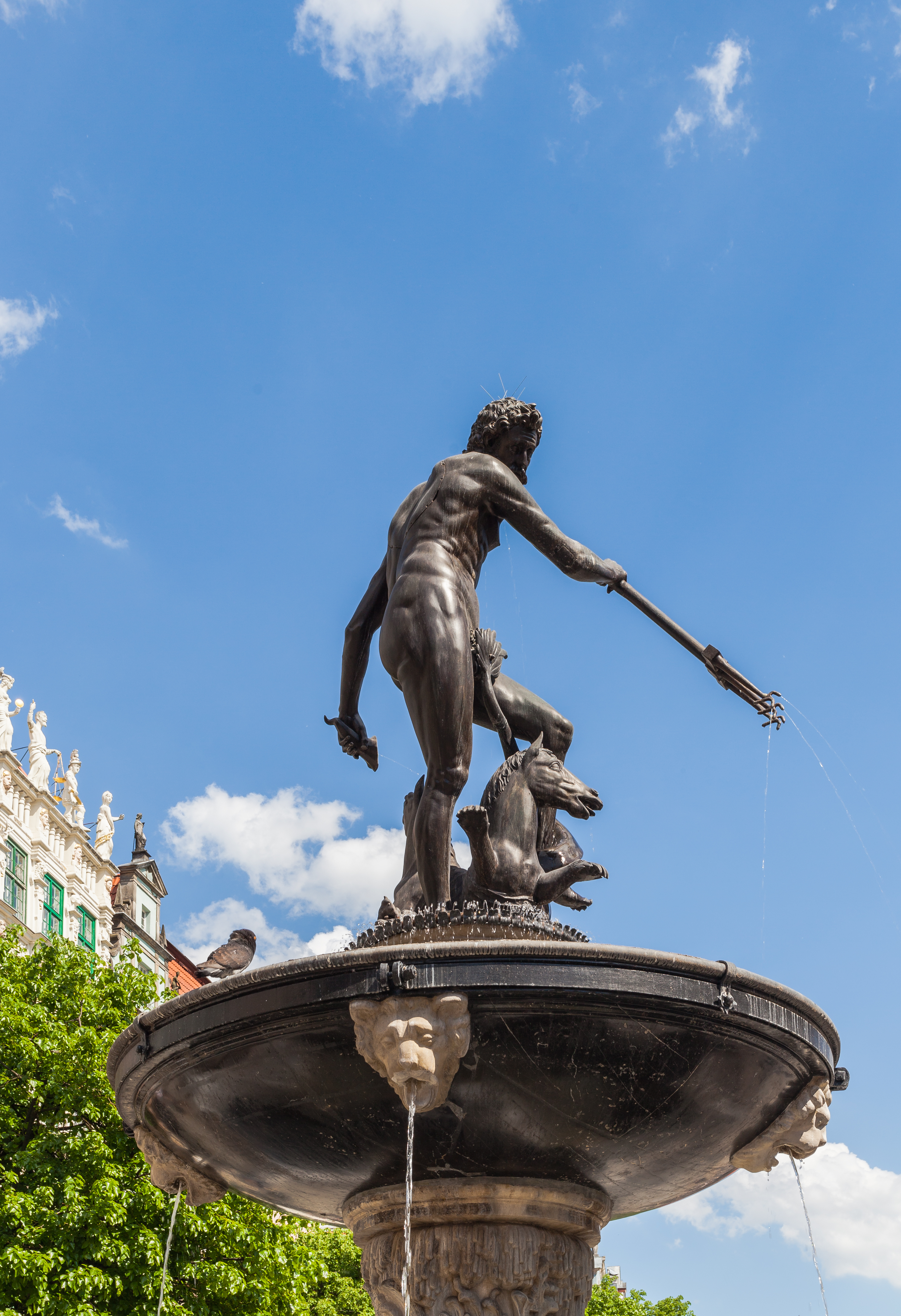 Neptune Monument, Gdansk, Poland